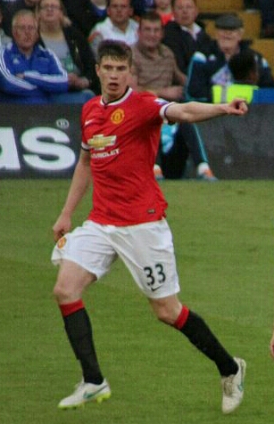 Paddy McNair